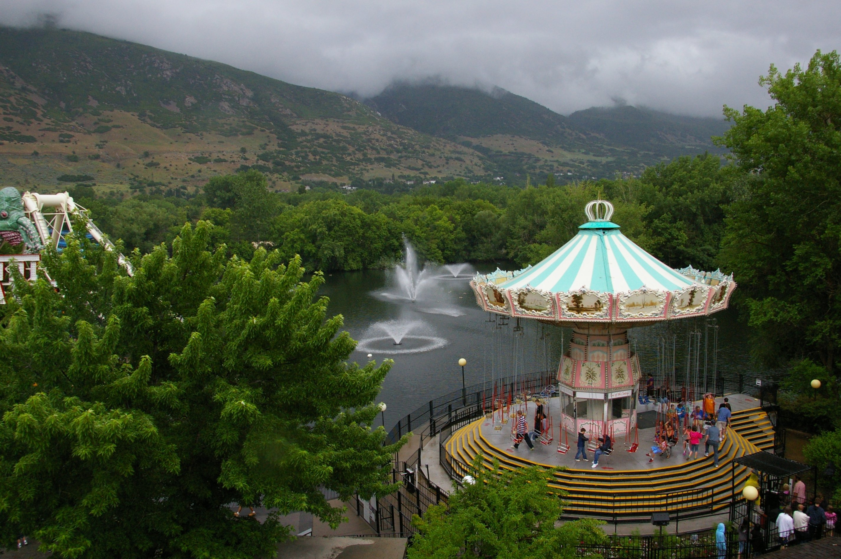 The Turn of the Century swing ride with the lagoon in the background.